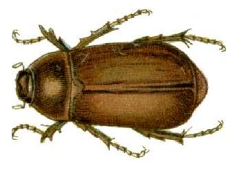 rotated